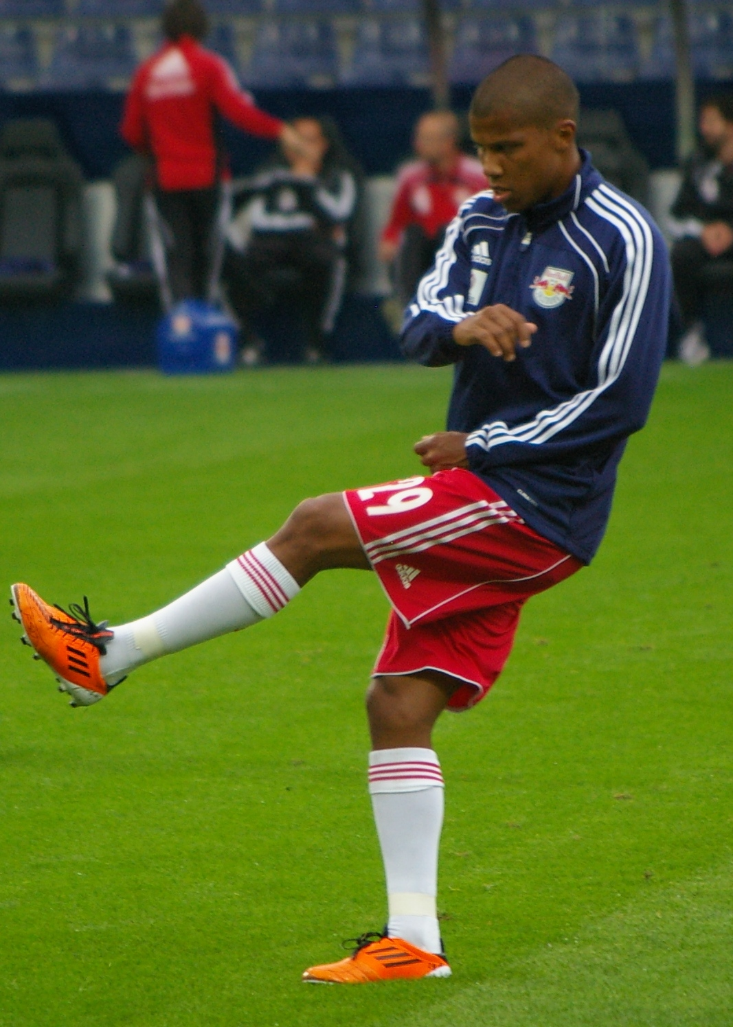 striker FC Red Bull Salzburg